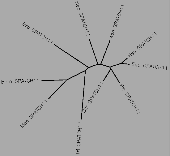 Evolutionary relationship amongst the different taxa.